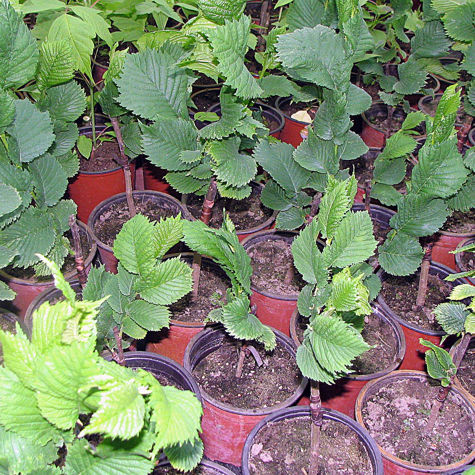 Ulmus glabra 'Exoniensis' grafted on Ulmus minor